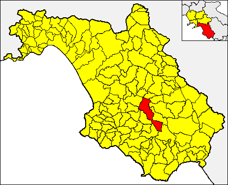 Locator map of the municipality of Laurino (red) within the Province of Salerno